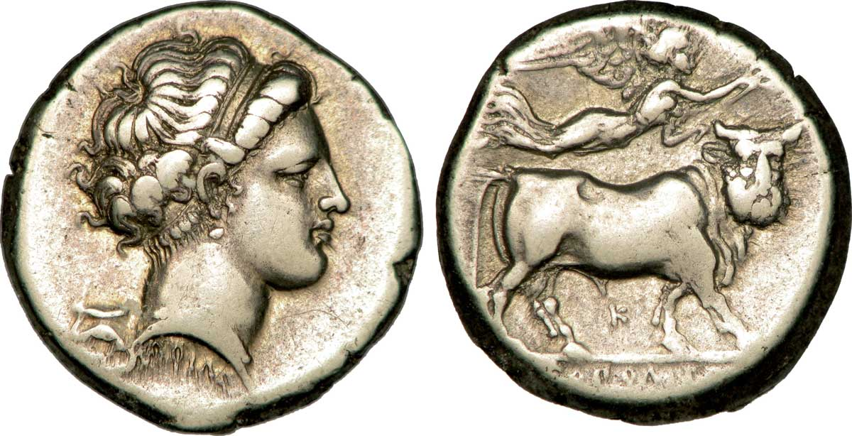 Nomos frappé à Néapolis à l'effigie de la nymphe Parthénopé ou Néapolis Date : c. 326/317 - 290 AC Description avers : Tête de la nymphe Parthénopé ou Néapolis à droite, la chevelure bouclée, ceinte d’un bandeau avec collier et boucle d’oreille ; derrière la tête, un osselet (astragale) Description revers : Taureau androcéphale passant à droite, la tête barbue de face, couronné par Niké volant à droite ; entre les pattes, une lettre .